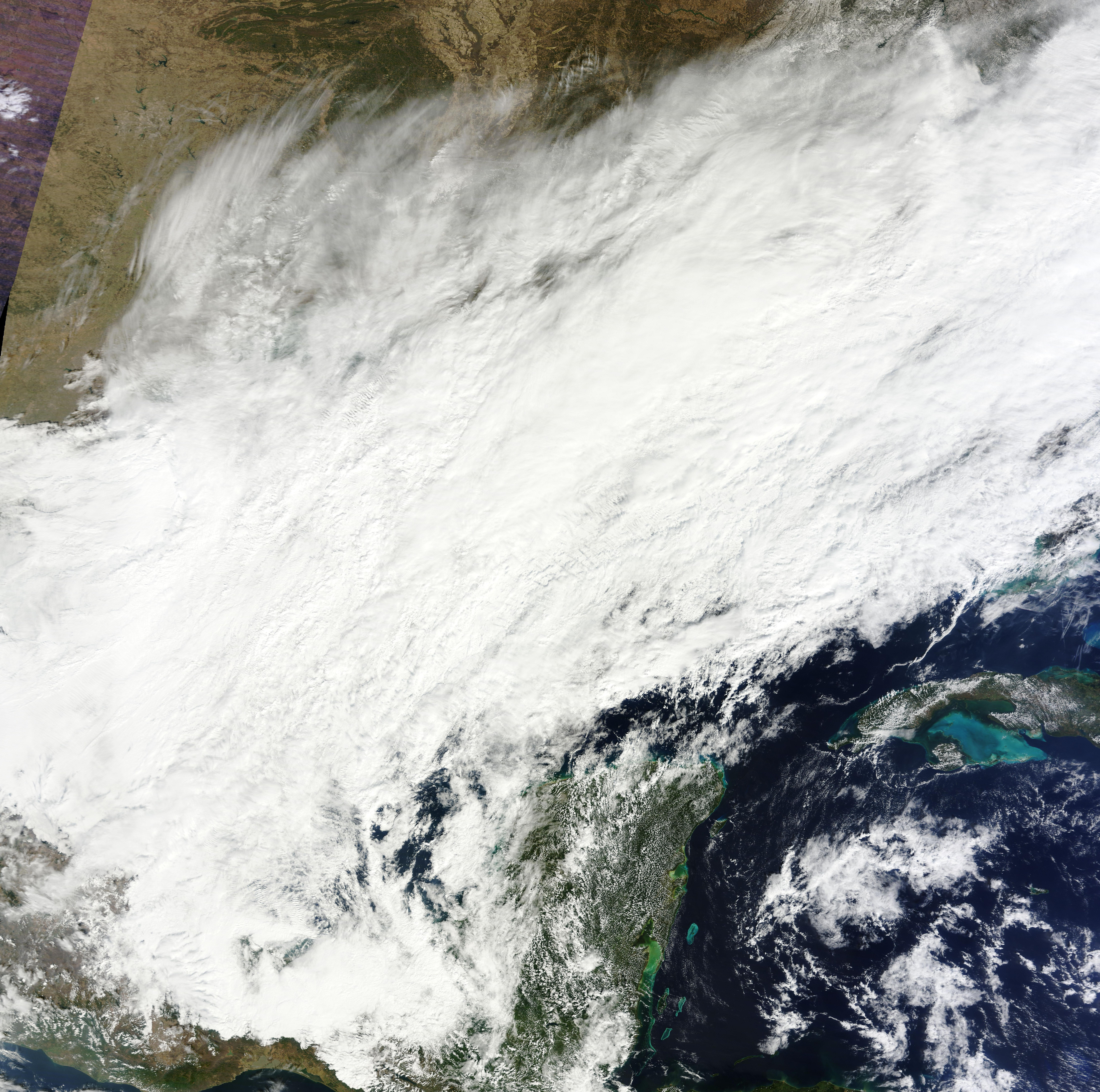 The Winterstorm on January 29, 2014